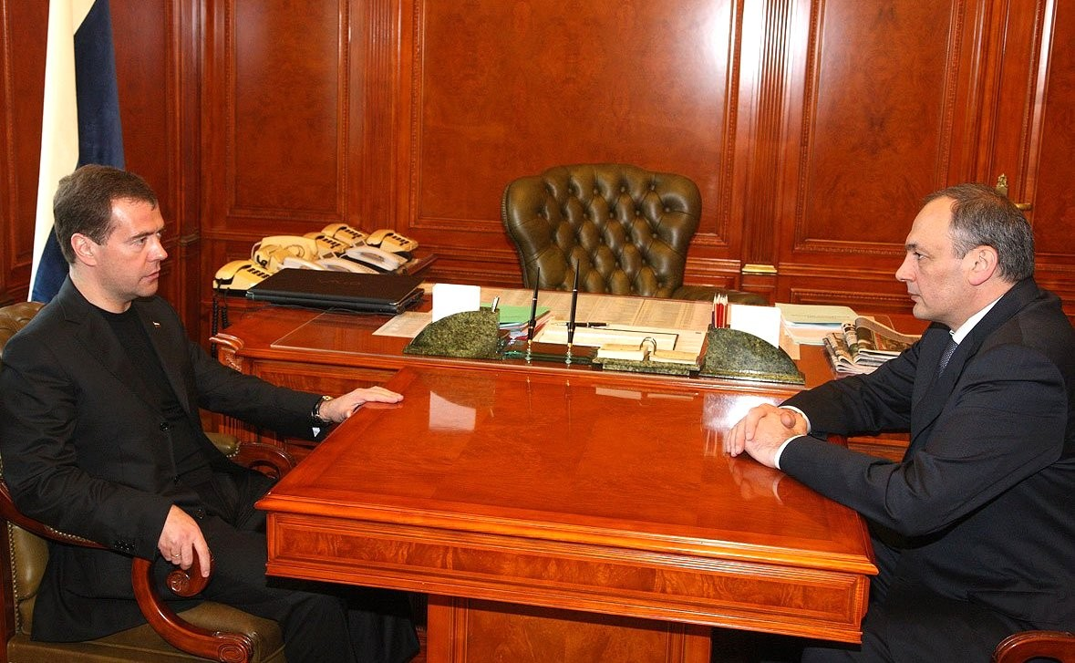 Medvedev